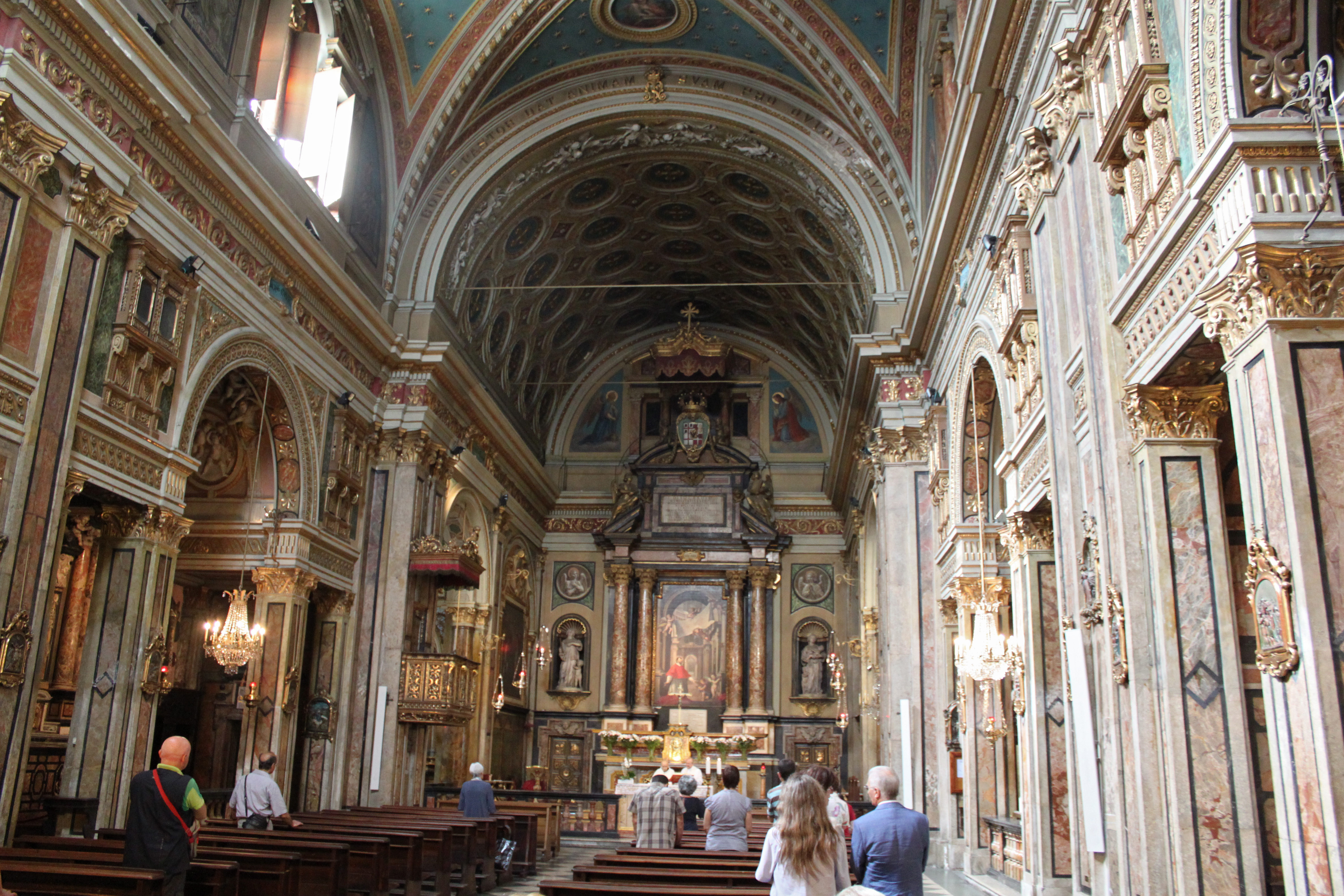 Inside the twin church of S Carlo Borromeo in Turin (Italy).